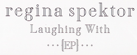 Text logo from the cover art of singer Regina Spektor´s EP "Laughing With" (2009)